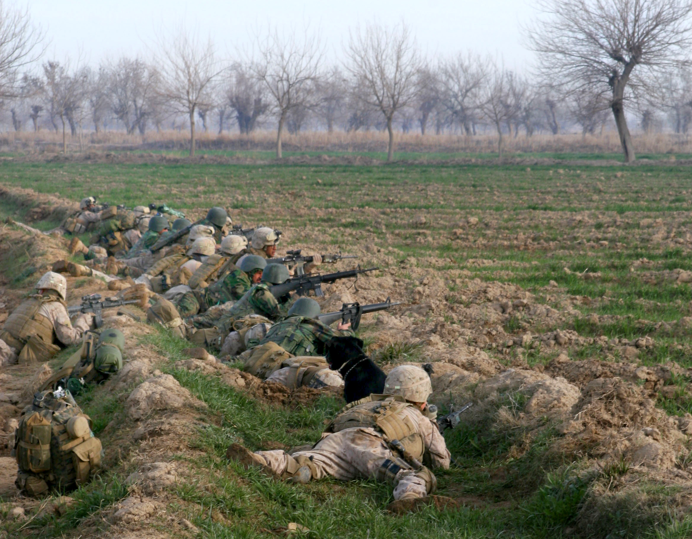 U.S. Marines and Afghan soldiers take cover in a shallow canal after recieving fire in the city of Marja in Helmand province, Afghanistan.